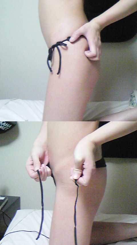 a woman wearing g-string (side)